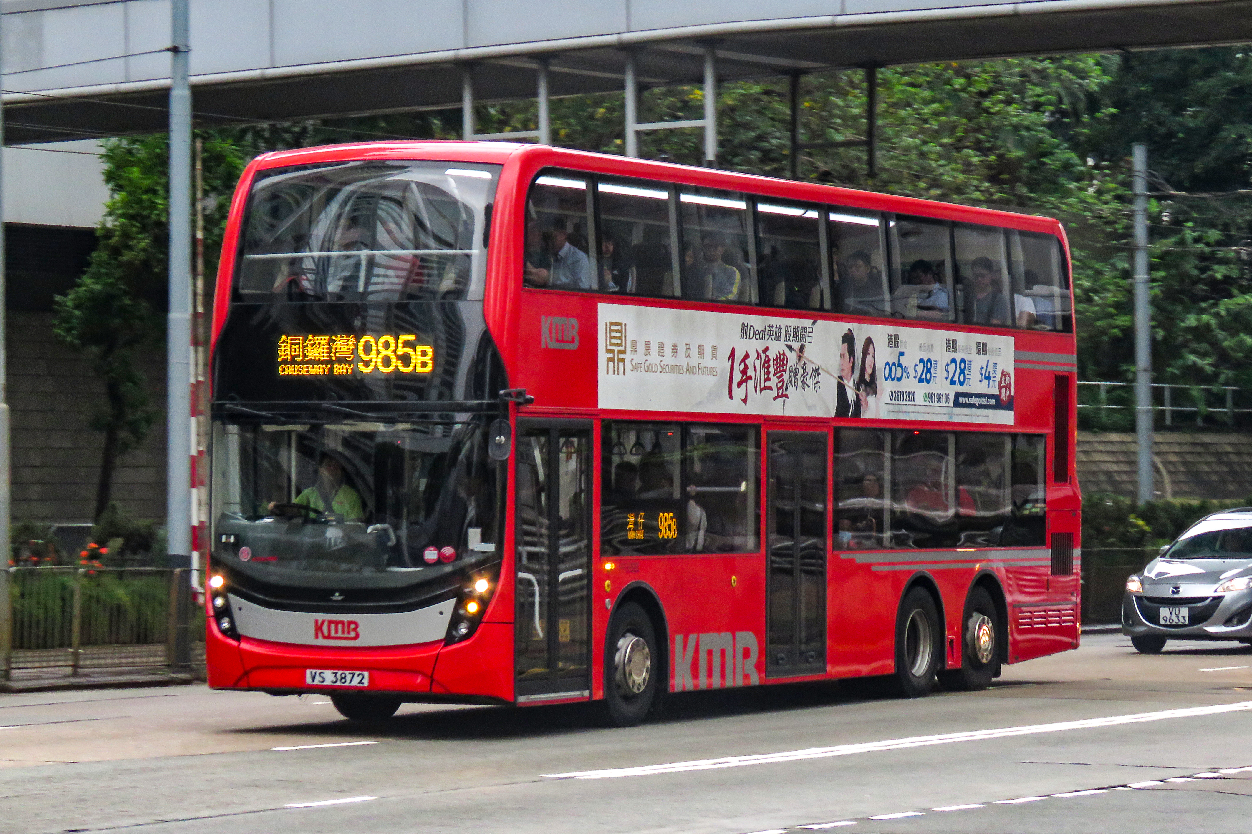 On weekday mornings, 985B serves Hin Keng...